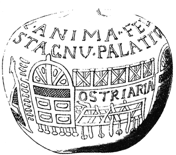 Roman Drawing of an Ostraria